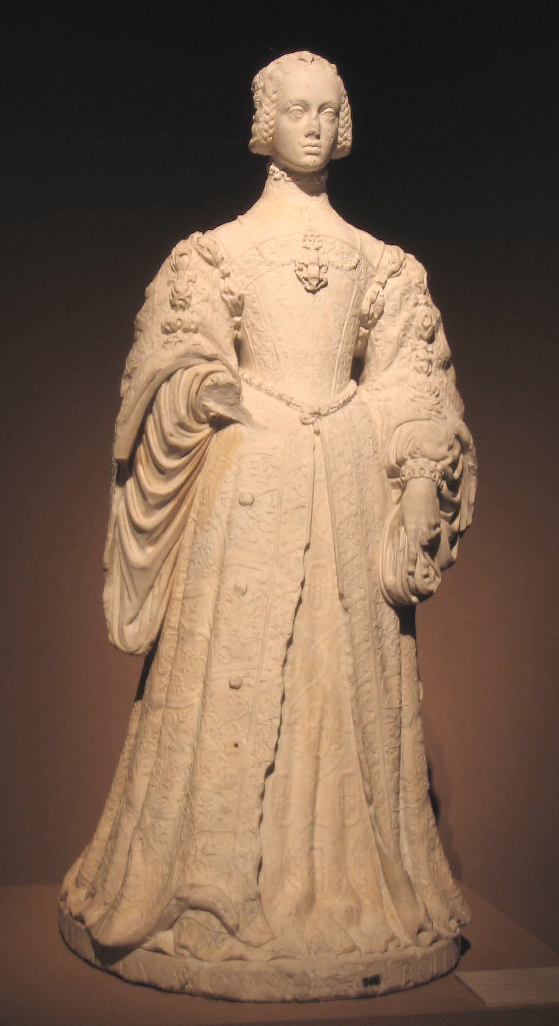 Statue of Empress Isabella of Portugal (1503–1539), Charles V's wife.